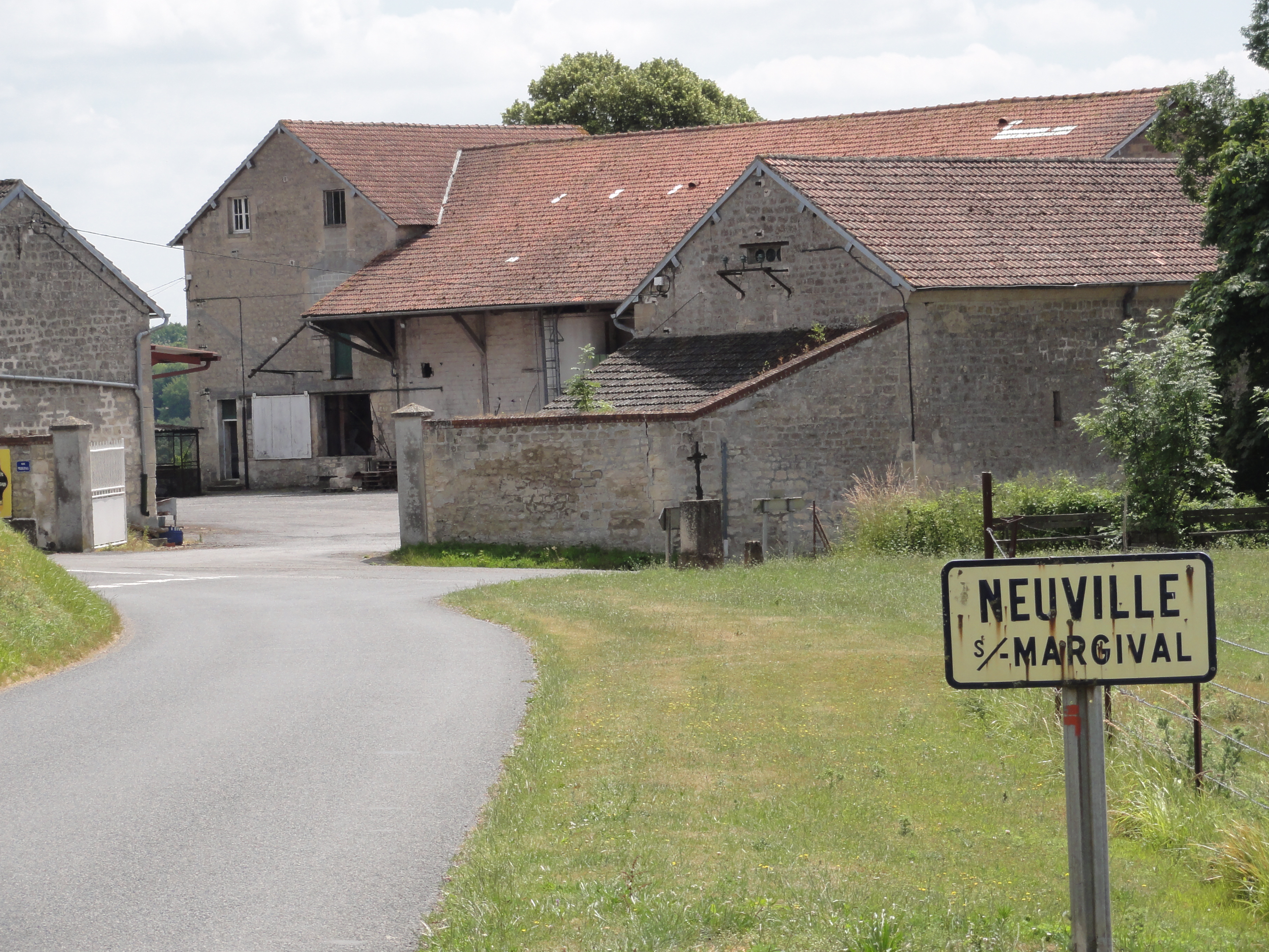 Neuville-sur-Margival (Aisne) city limit sign